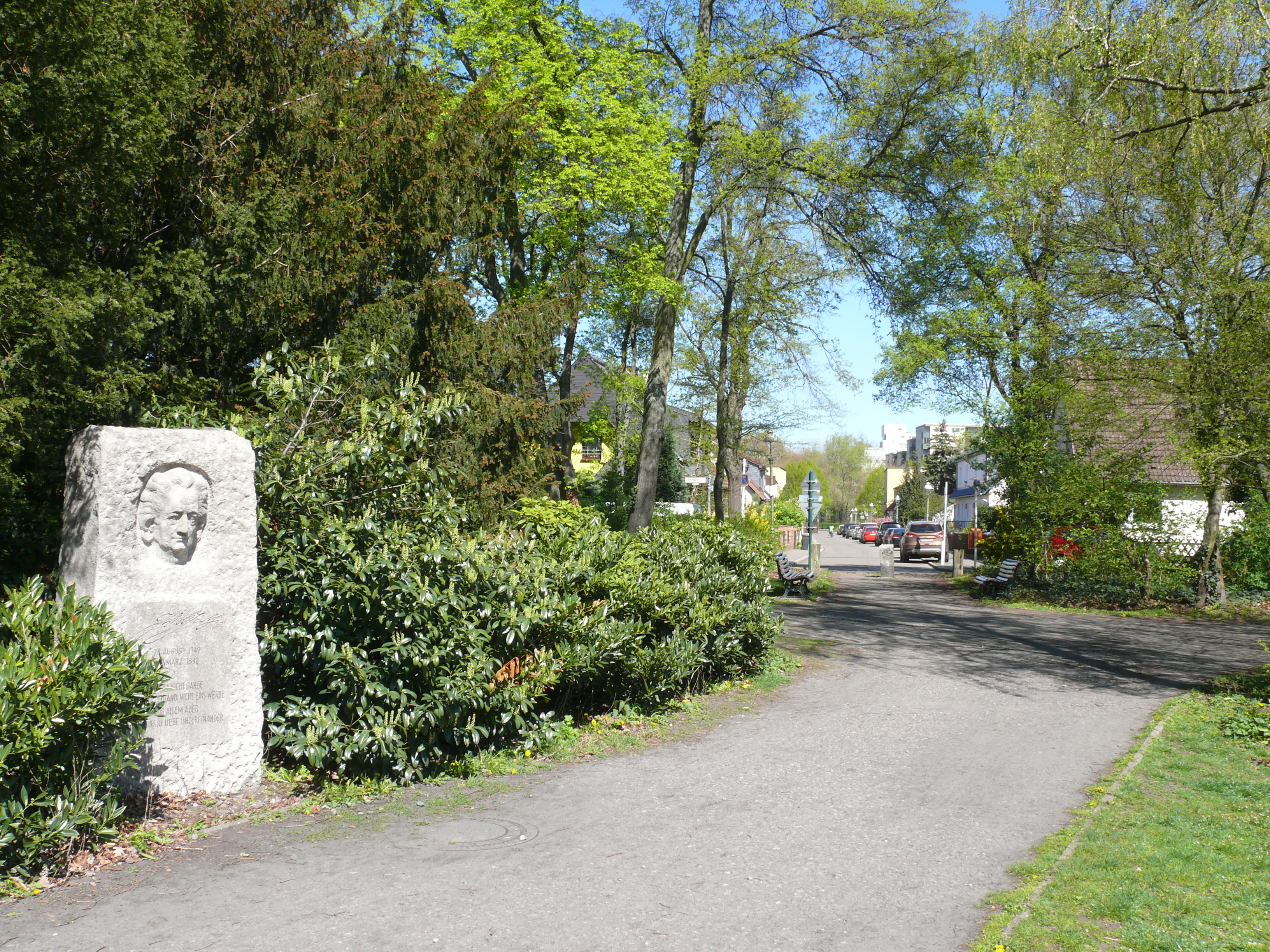 Berlin-Wedding Goethepark Goethe-Denkmal Goethepark